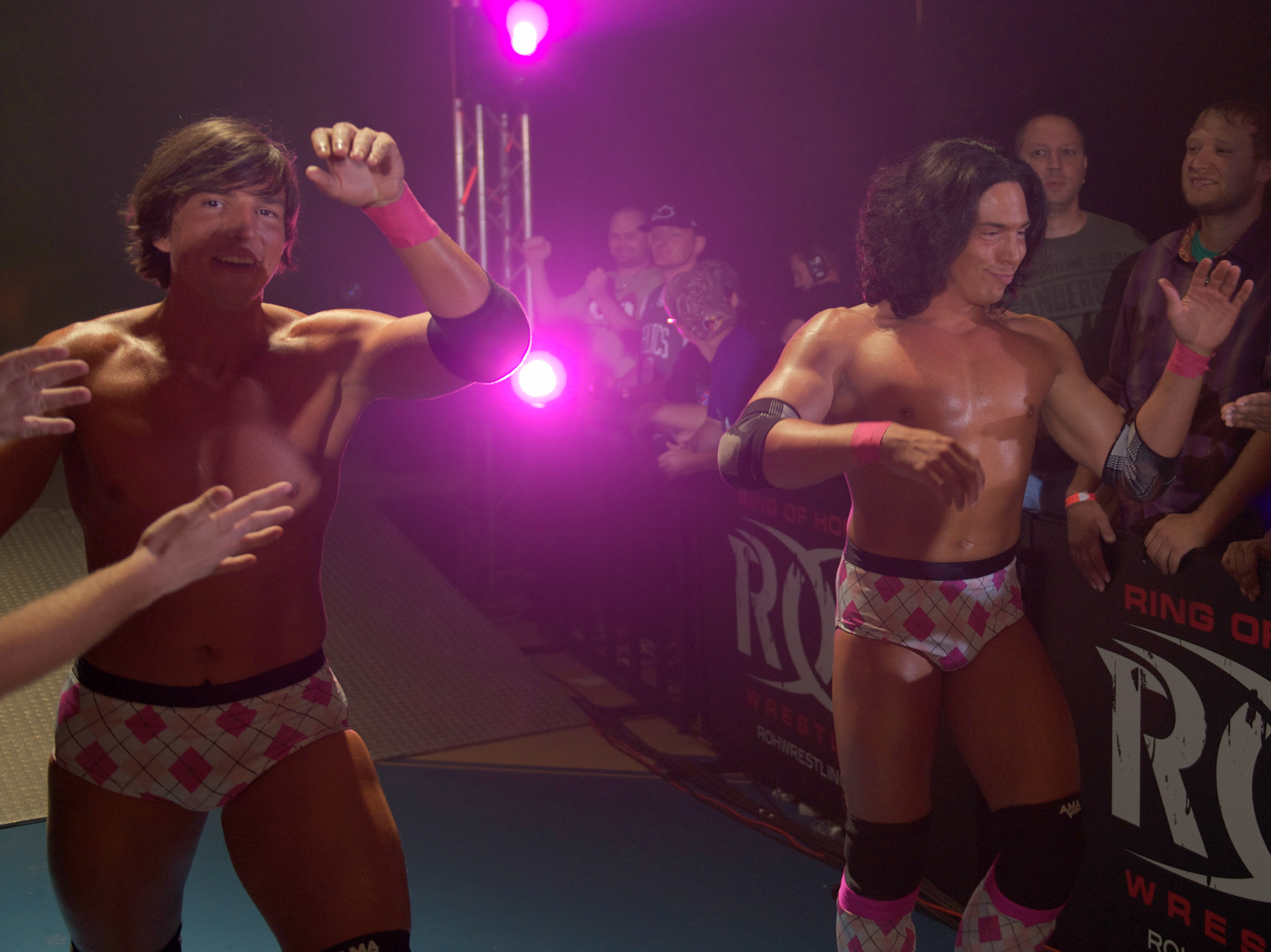 The Bravado Brothers (Harlem, left, and Lancelot, right) at a Ring of Honor show in 2011.